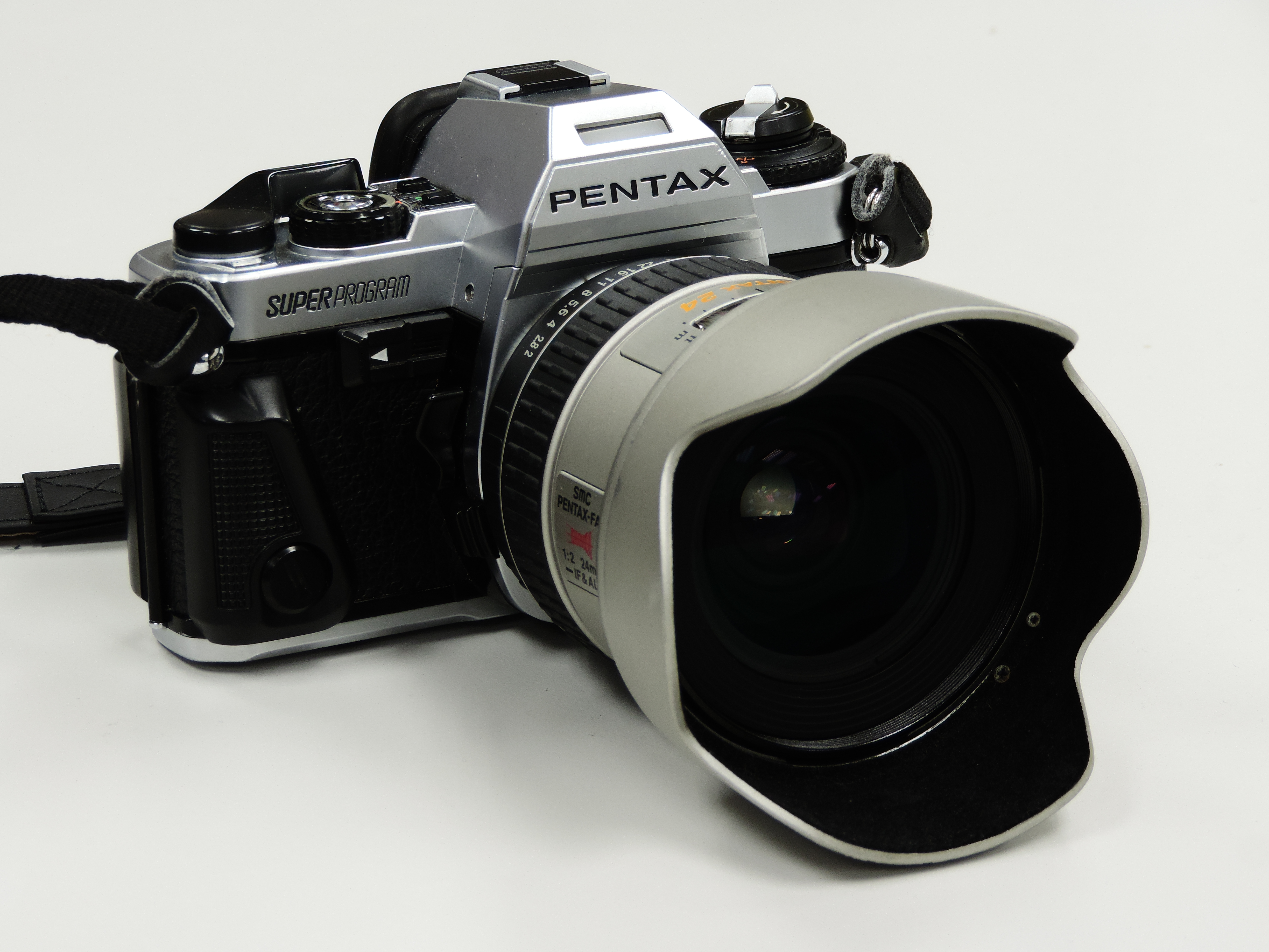 PENTAX SUPER PROGRAM with FA* 24mm F2